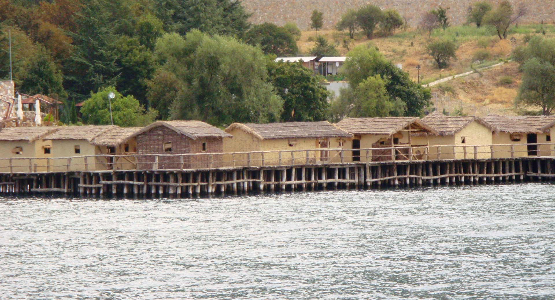 Bay of the bones in Ohrid, museum on water. Neolithic reconstructions